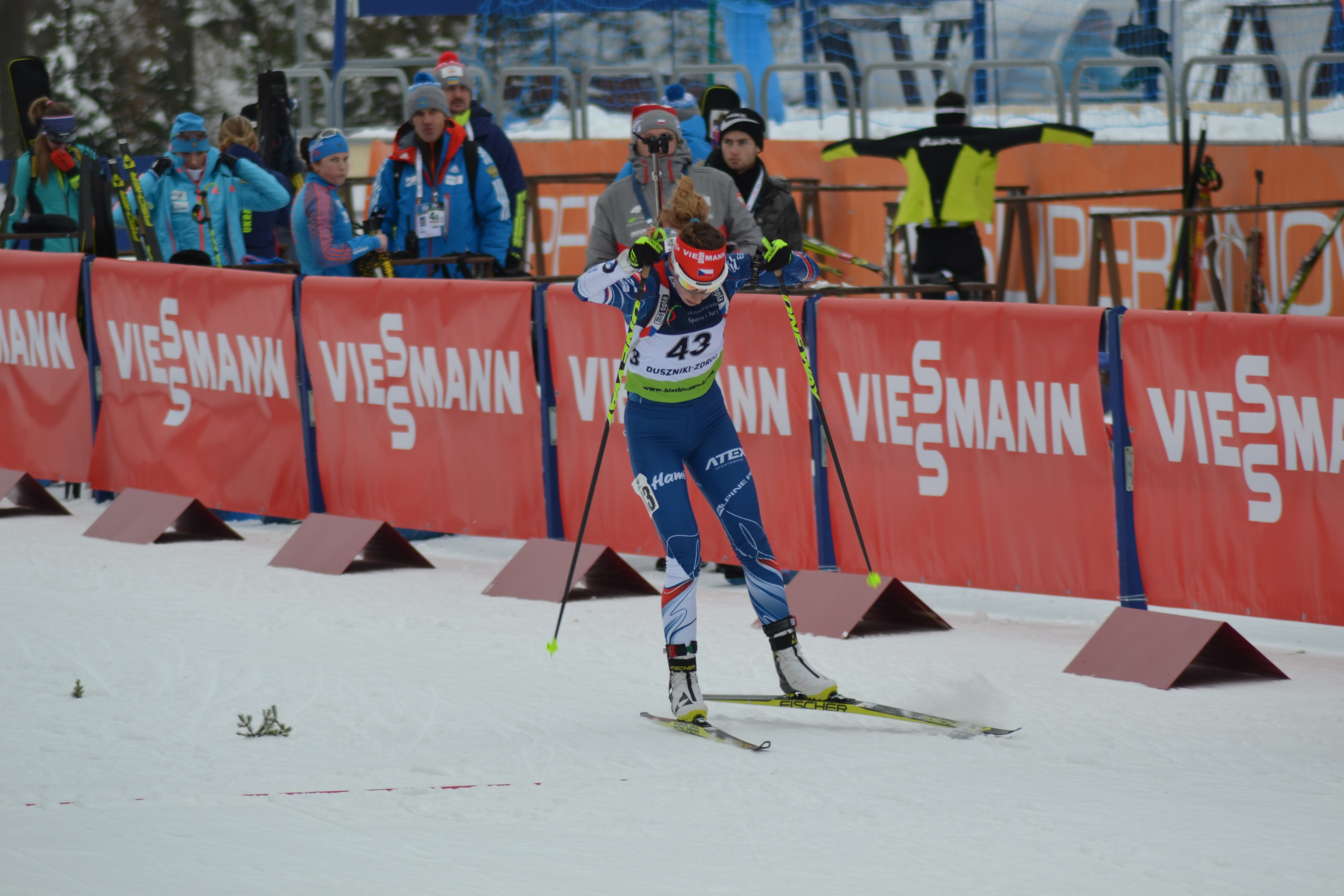 Open European Championships Biathlon 2017, Individual Women's race, held on January 25th.